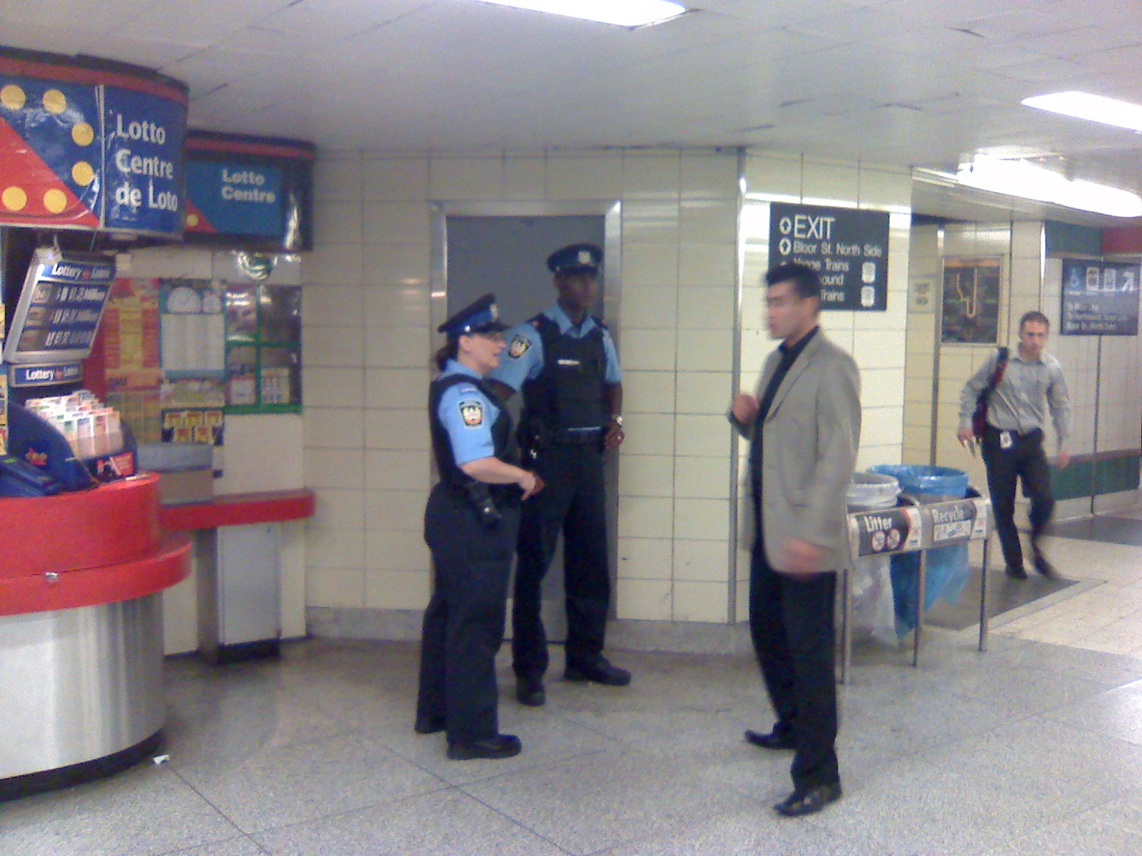 TTC Special Constables in Bloor subway station.